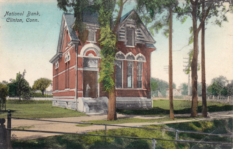 Picture of the First National Bank in Clinton, Connecticut, from a postcard mailed in 1910.